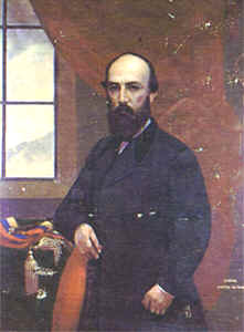 Oil painting of Santos Gutiérrez President of the United States of Colombia.